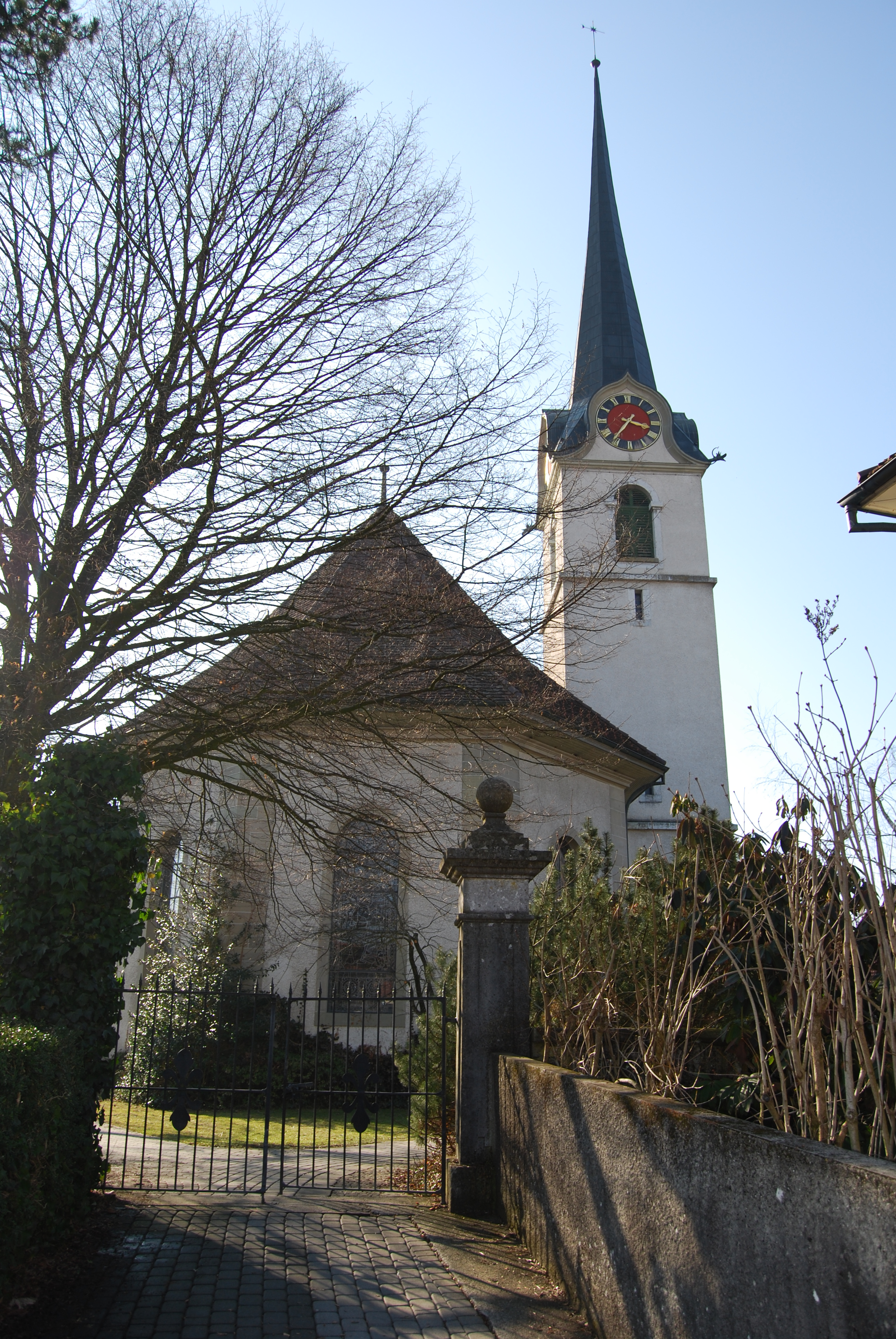 Protestant Church of Rohrbach, canton of Bern, Switzerland